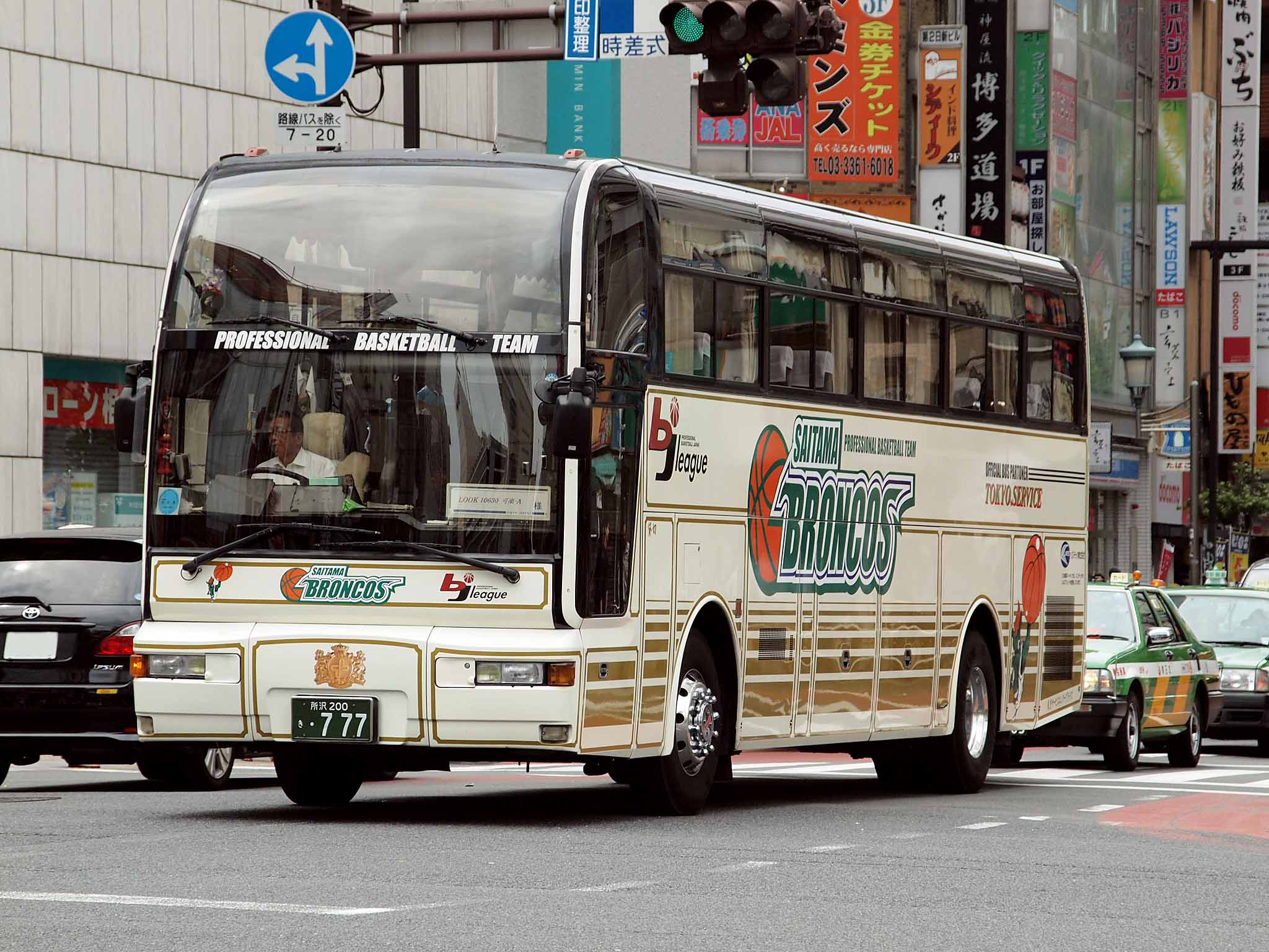 Fleet of Tokyo Service Enterprise, wrapped bj league basketball team Saitama Broncos advertise. Model: Isuzu Super Cruiser U-LV771R Body: Fuji Heavy Industries 17S License plate: STT200 KI-777 Place: Shinjuku Ward, Tokyo Japan